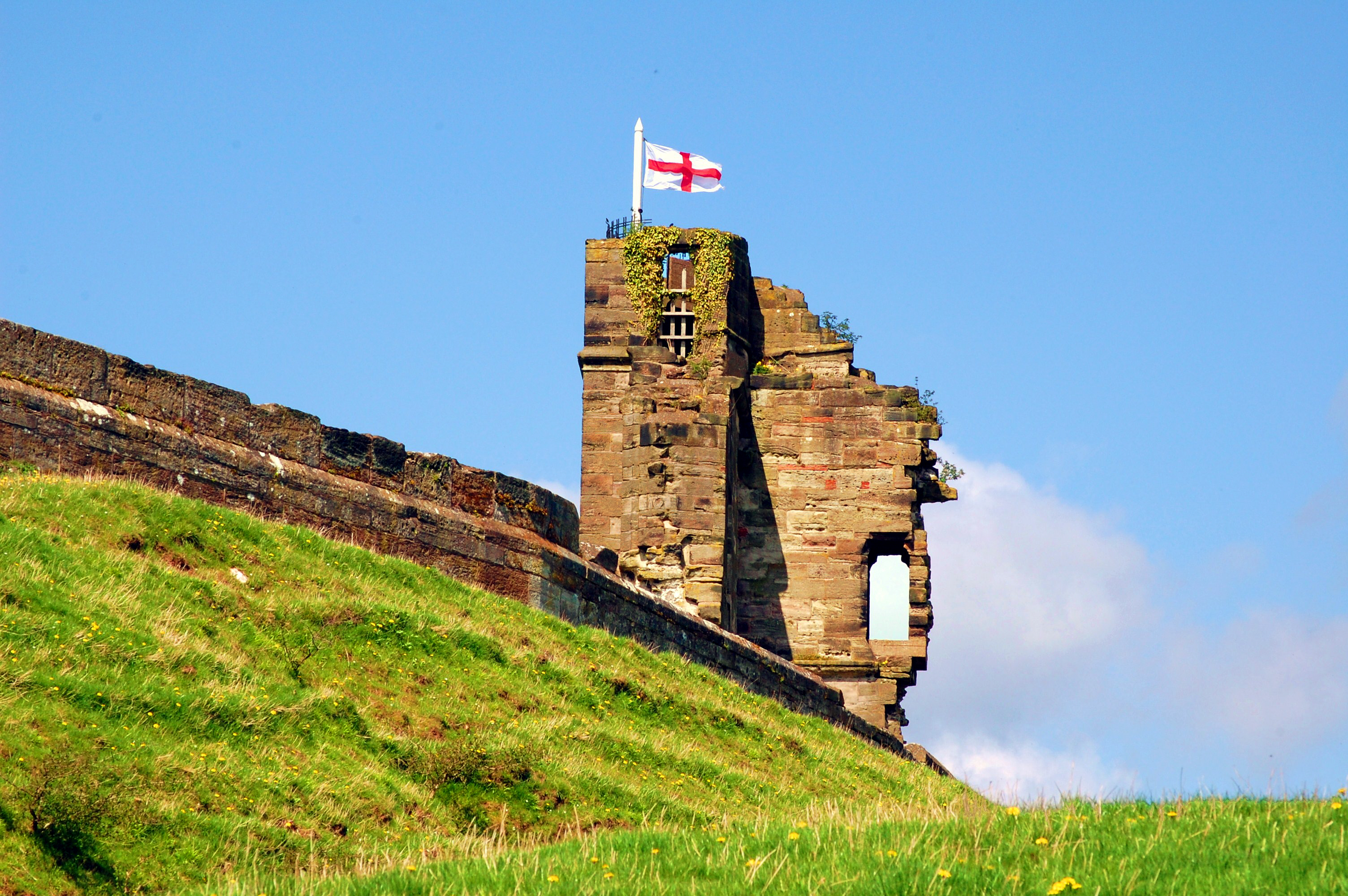 These ruins are largely 14th century, the original castle having been razed by Prince Edward later Edward I during the Barons' Rebellion in 1264. The site was given to Edward's younger brother, Edmund of Lancaster and it remains with the Duchy of Lancaster today. Mary Queen of Scots was imprisoned here for a while in the 16th century.